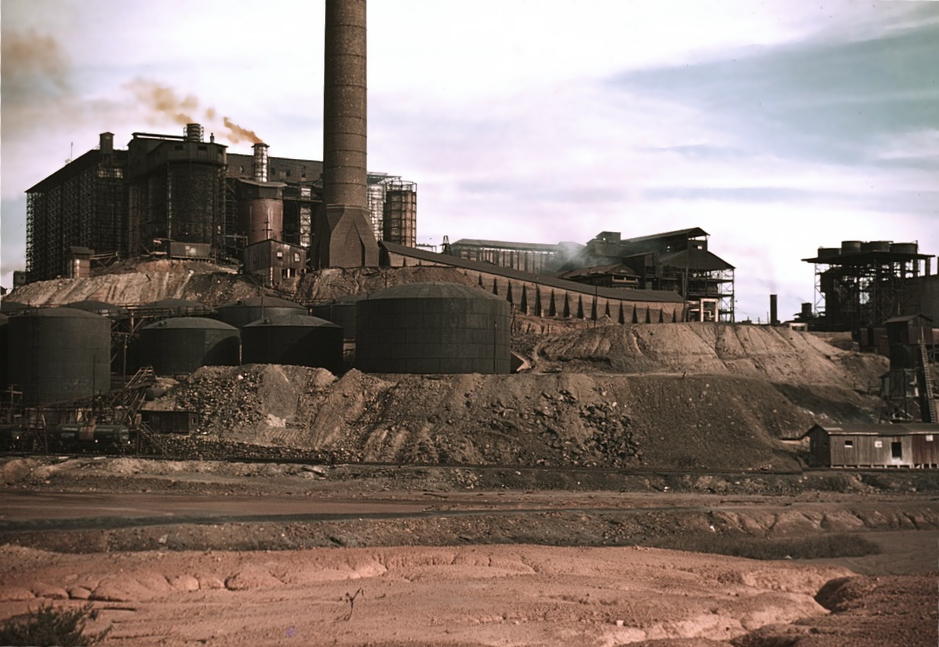 Title: Copper mining and sulfuric acid plant, Copperhill], Tenn.